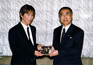 Tetsuya Komuro, Director of the TK state, met Keizō Obuchi, Prime Minister, at the Prime Minister's Official Residence in Chiyoda Ward, Tōkyō Metropolis on October 20, 1999.